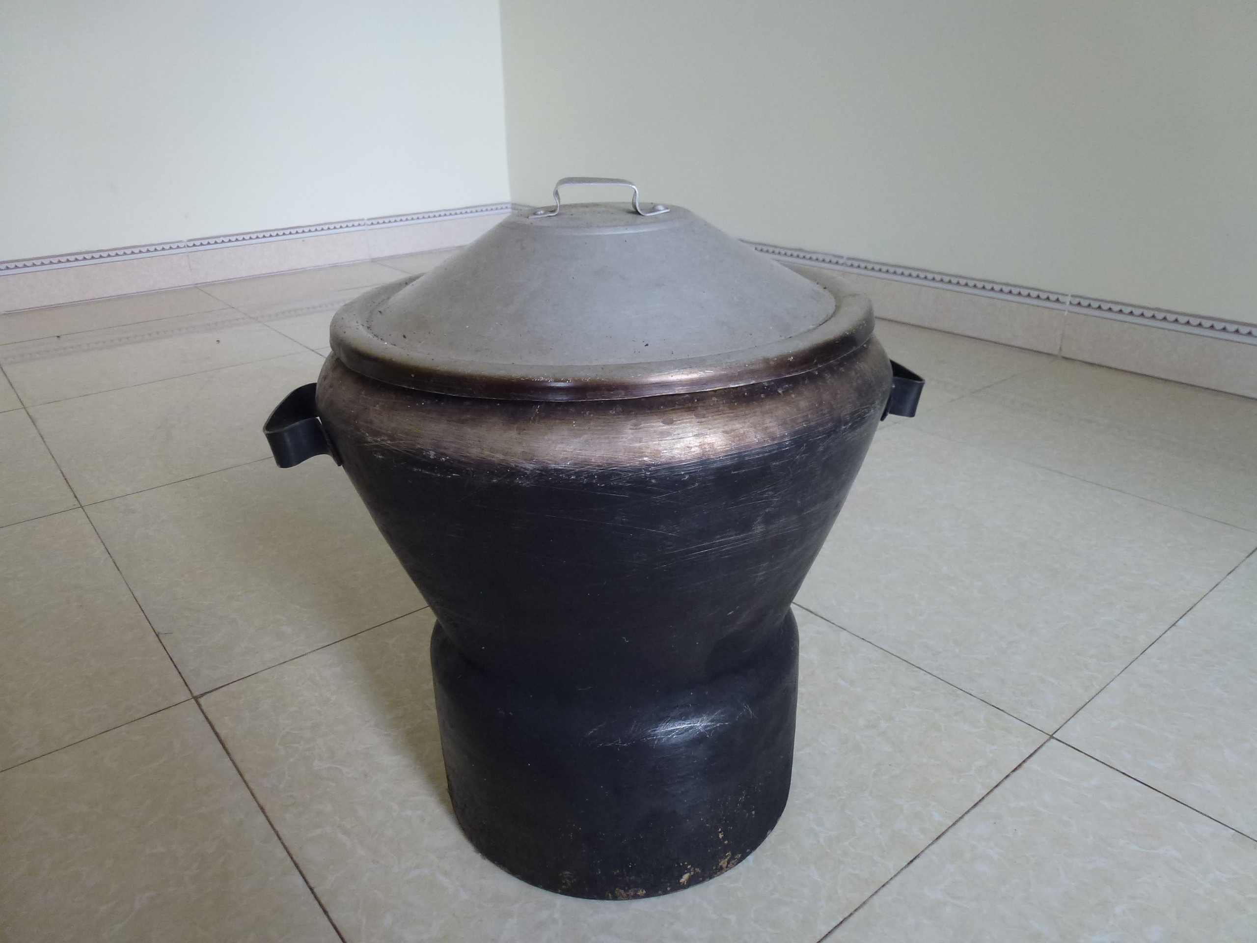 Modern xôi cooker 2 - Viet Nam